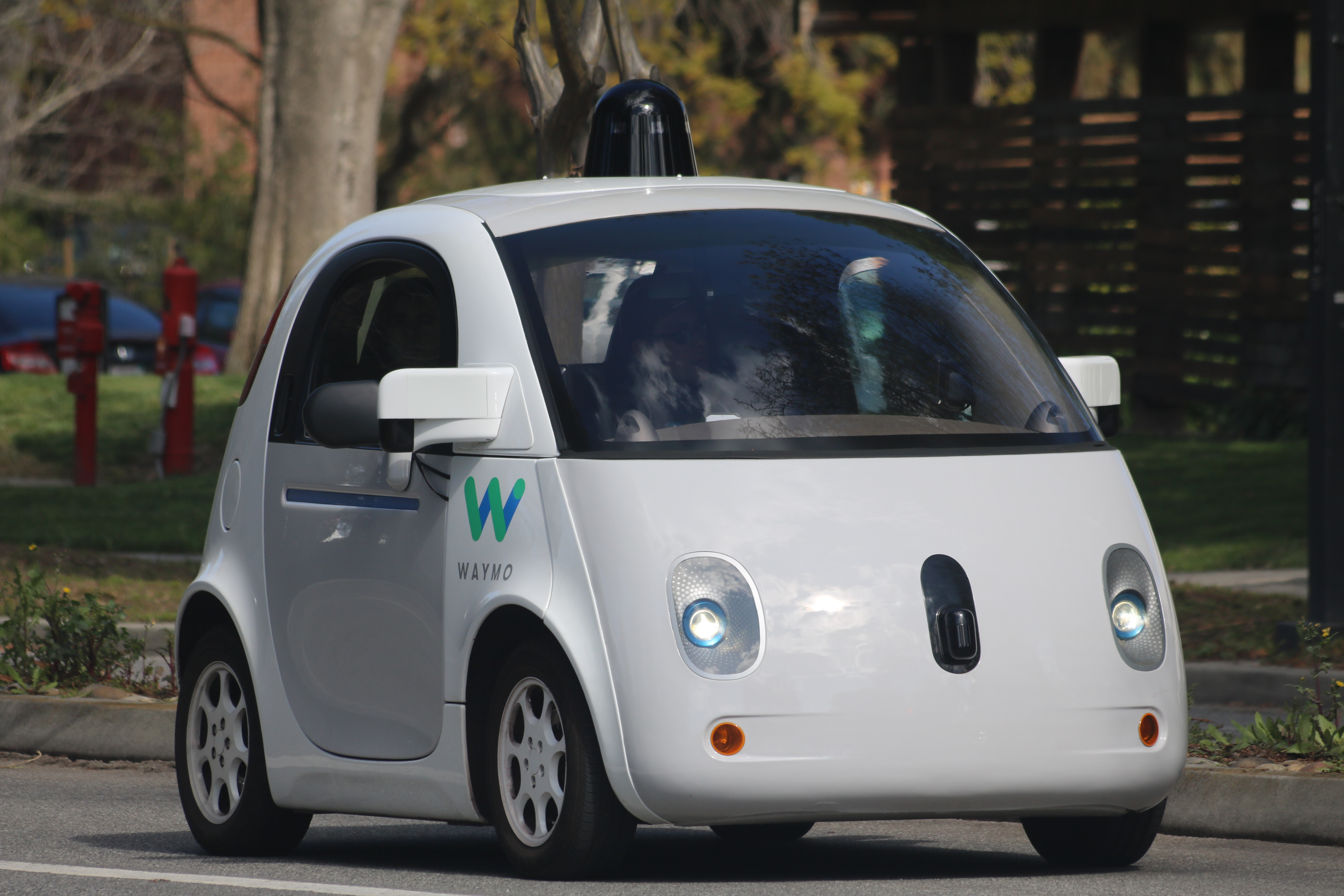 A Waymo self-driving car on the road in Mountain View. (Front view.)